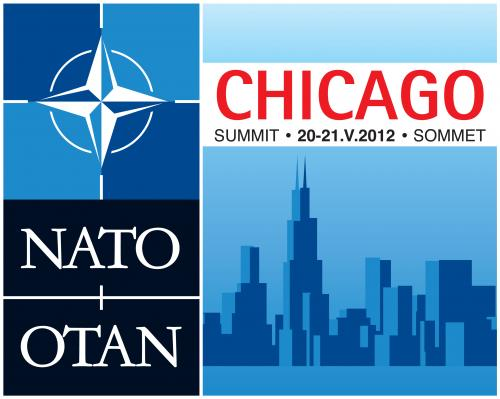 Logo for the 2012 NATO summit in Chicago. Source: NATO.